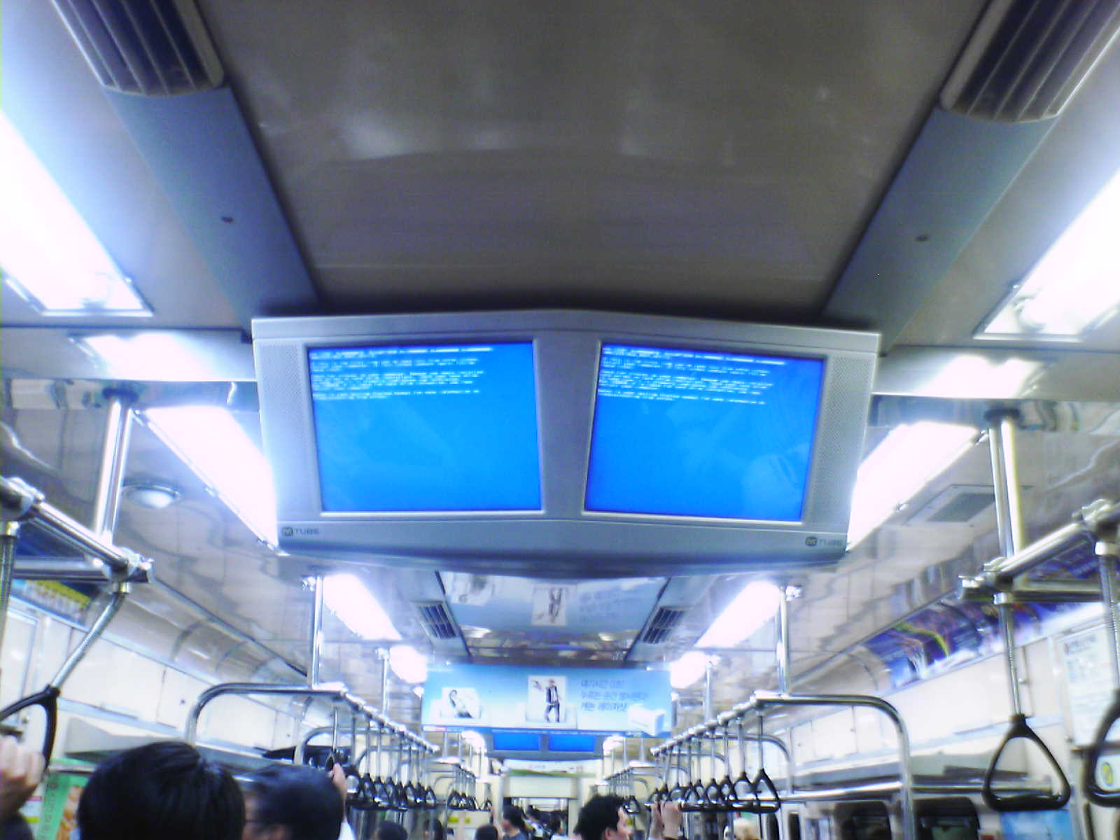 Blue Screen of Death of Windows 2000 in Seoul Metropolitan Subway Line 3. Blame the fixed shutter speed of my toy camera.